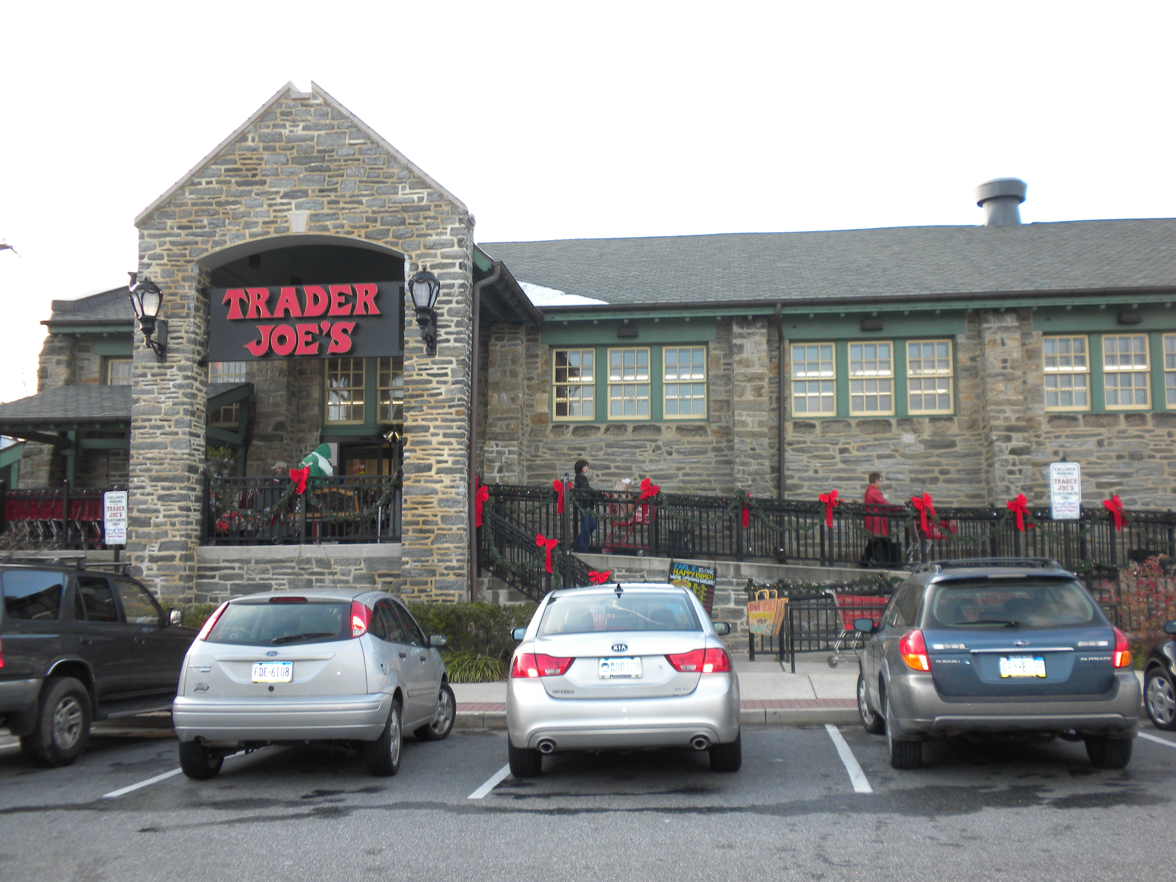 Media Armory in Media, PA (Delaware County) on NRHP, showing the Trader Joe's entrance. Credits This photo is my own work and I donate it to the public domain. Note that I don't work for trader Joes's, the Borough of Media, or otherwise have a conflict of interest on this!